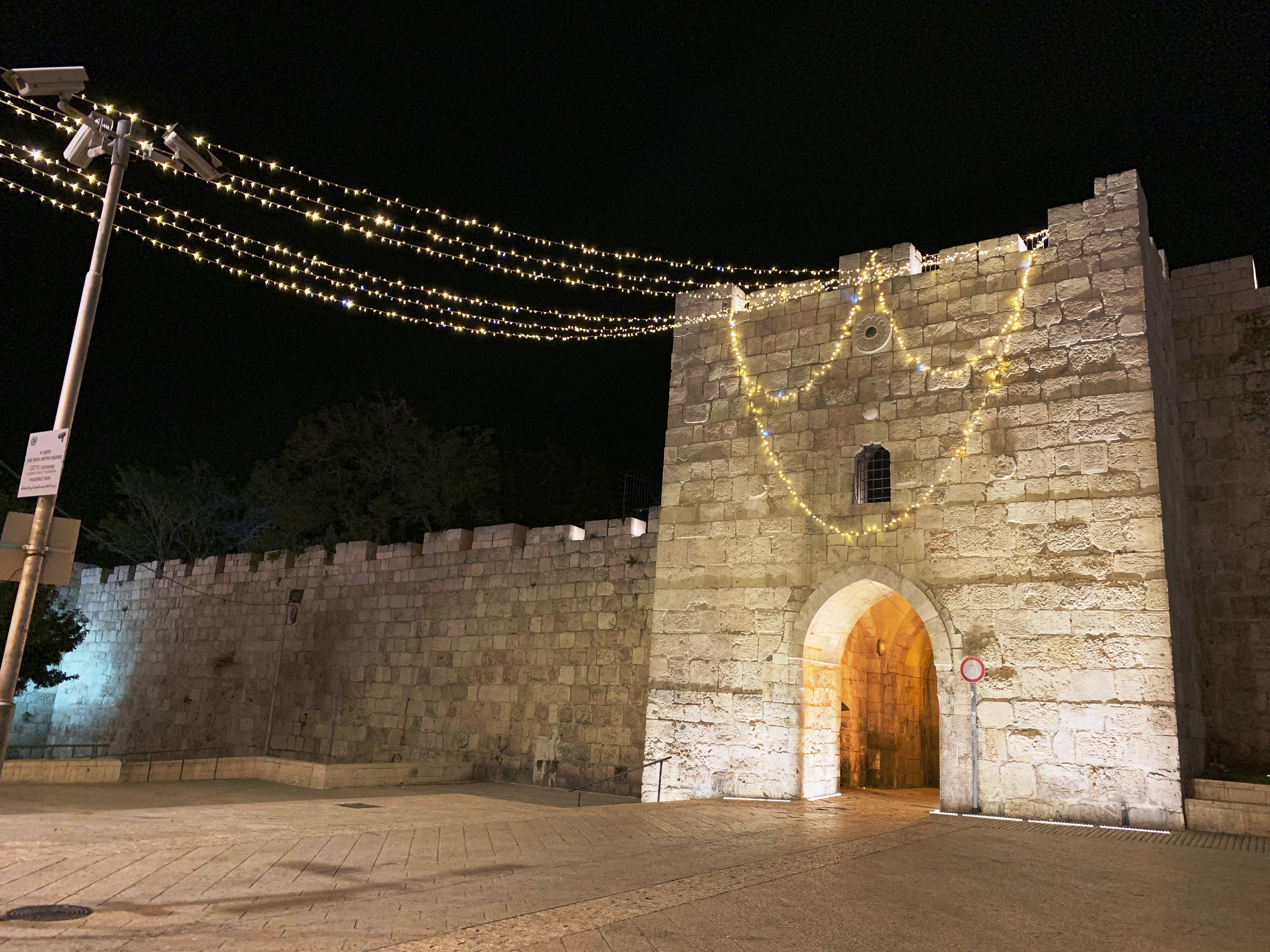 Herods Gate at night 2019.